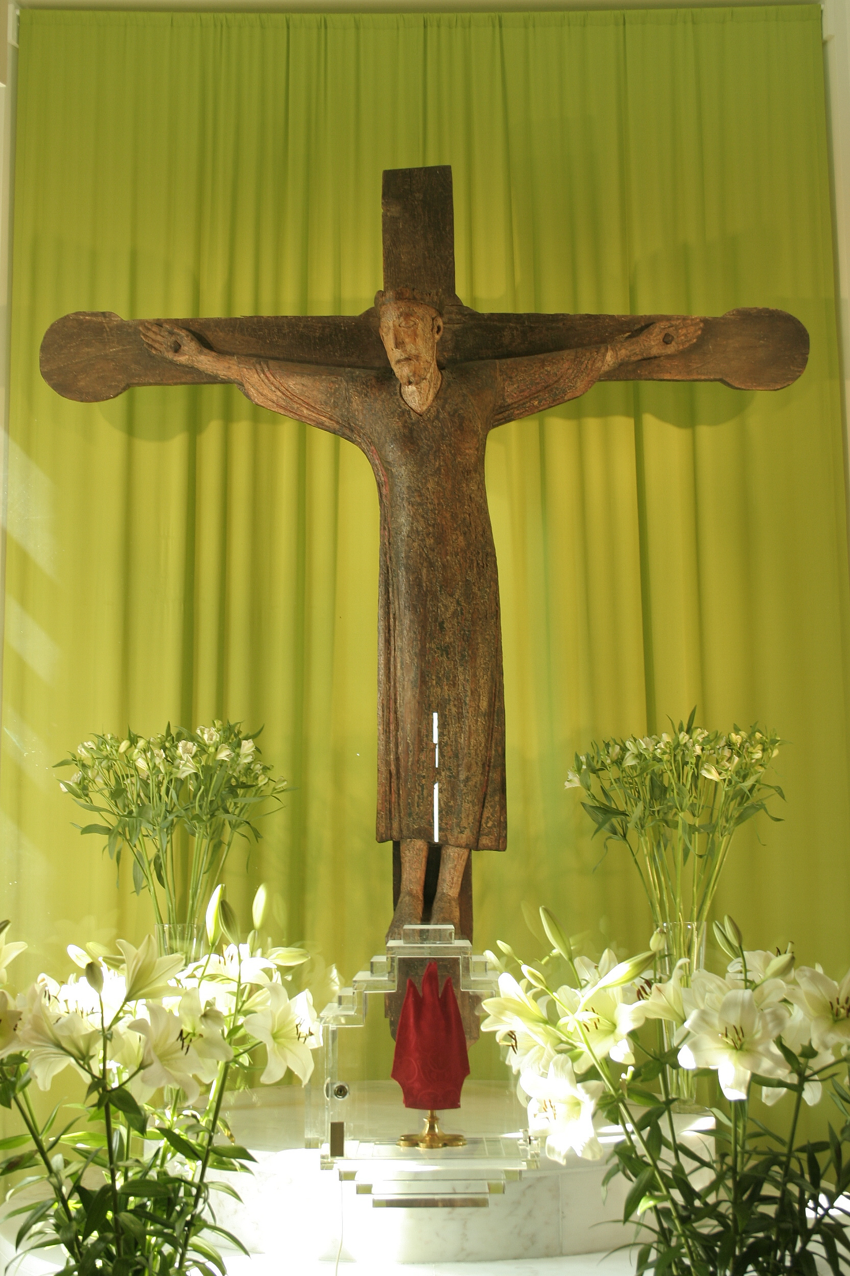 Pepinster, the old romanesque Christ of Tancrémont (XIth century).